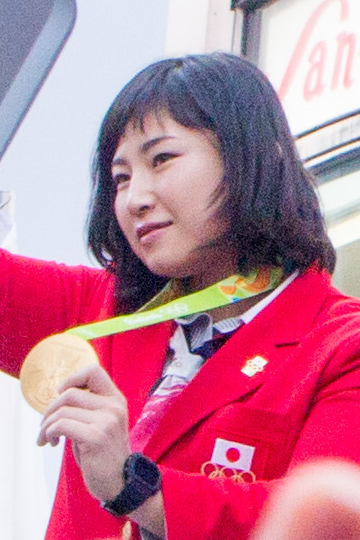 Sara Dosho is a Japanese wrestler.